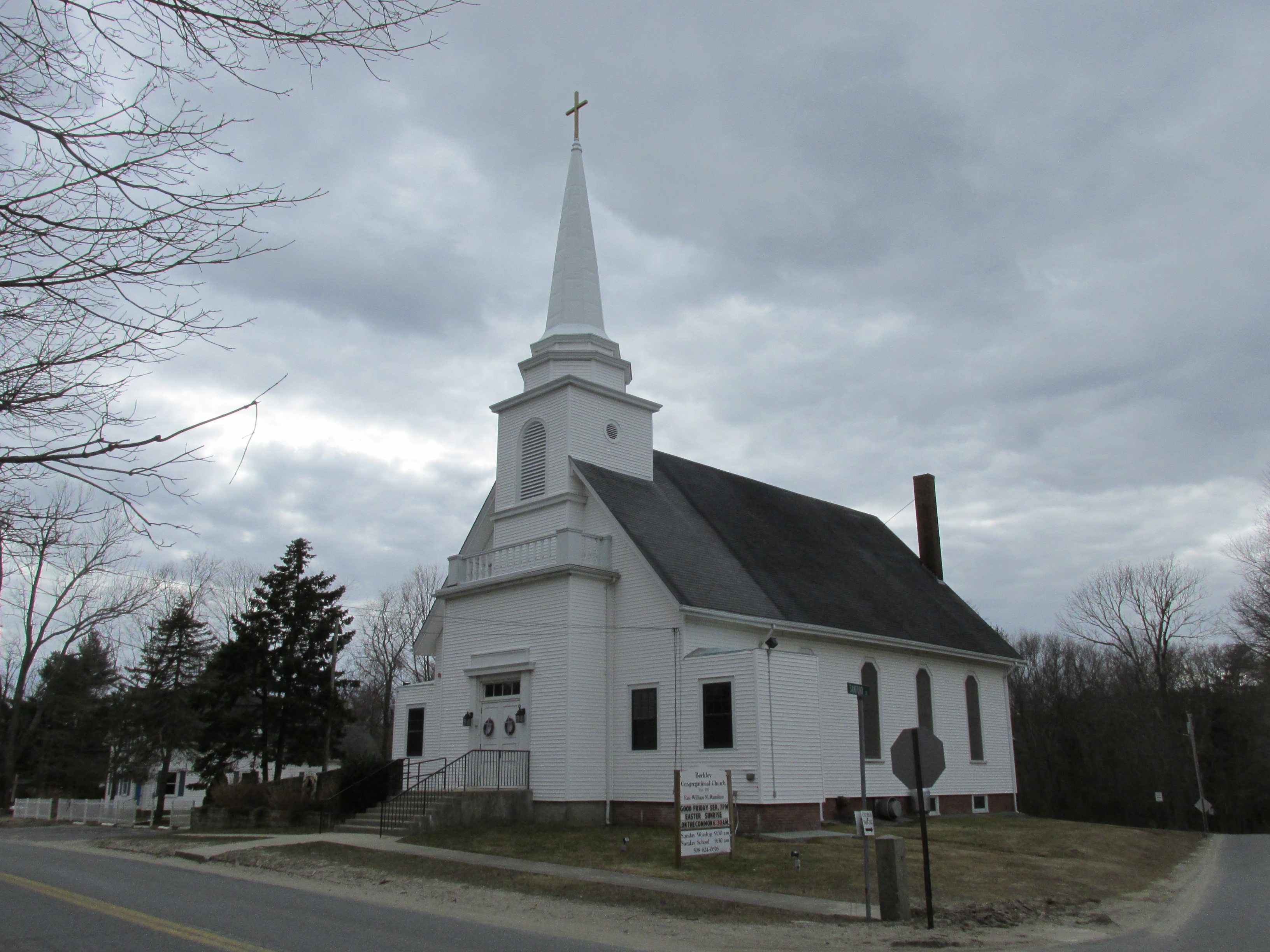 Berkley Congregational Church, Berkley Massachusetts